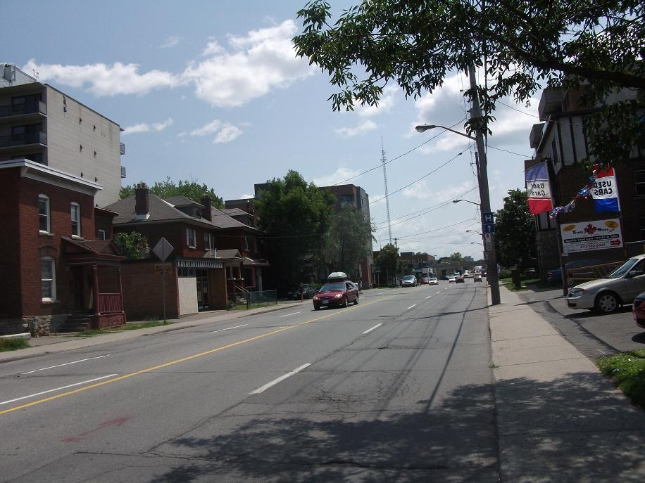 Photo